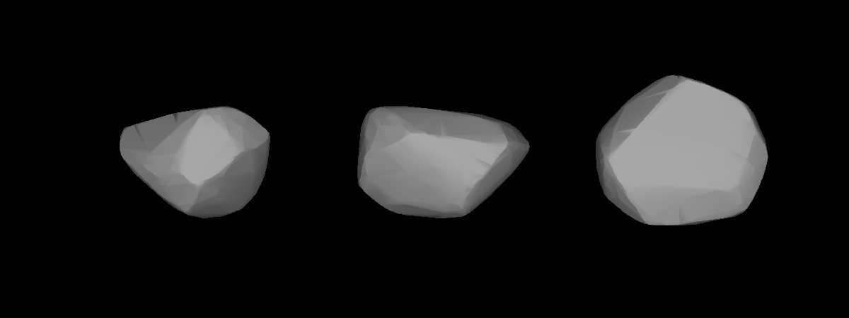 A three-dimensional model of 192 Nausikaa that was computed using light curve inversion techniques.